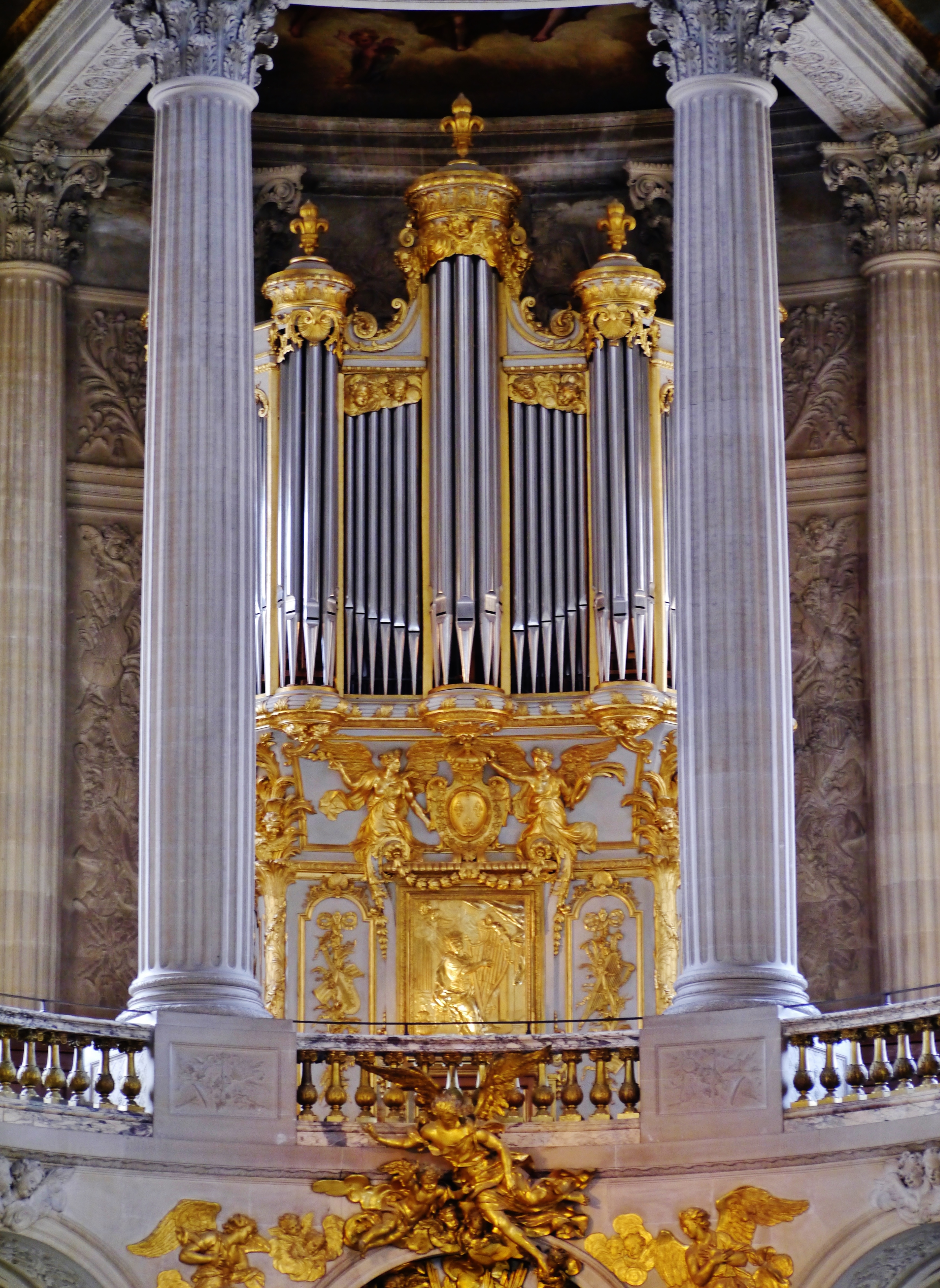 Organ of the Chapel of Versailles Palace, Versailles, Département of Yvelines, Region of Île-de-France, France